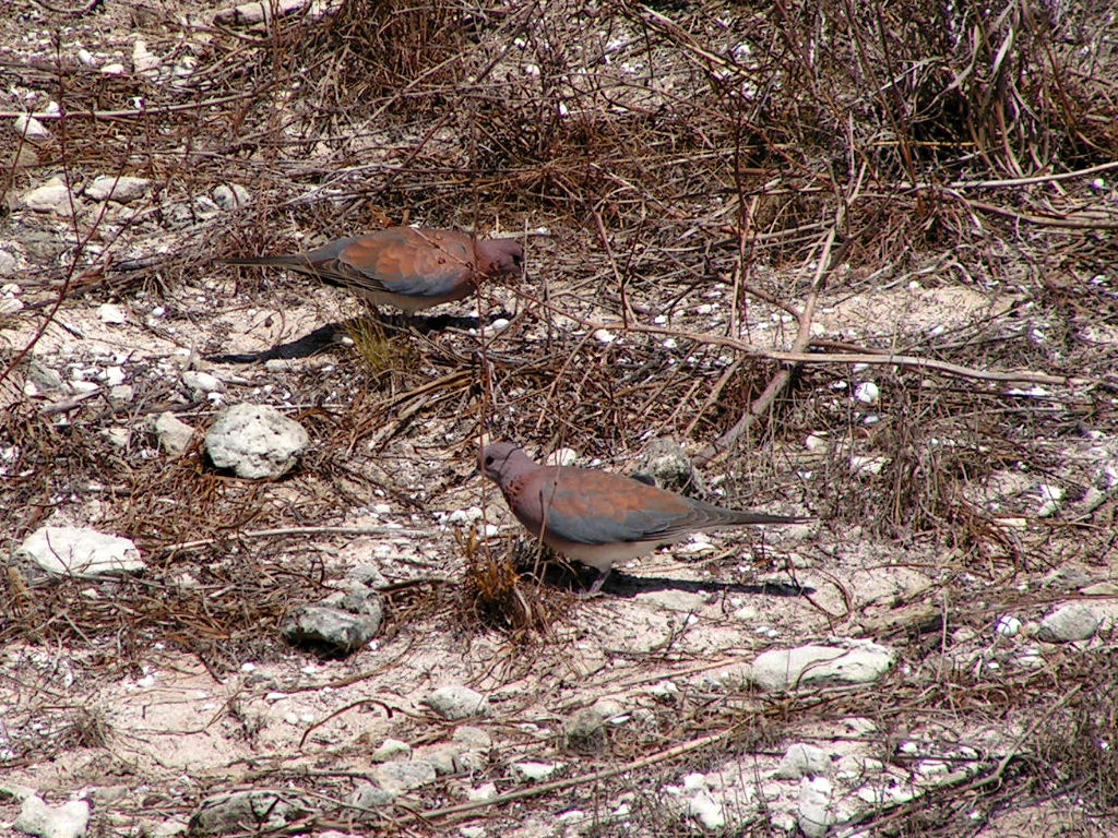 Laughing Doves (Stigmatopelia senegalensis senegalensis), foraging, Rottnest Island, Western Australia